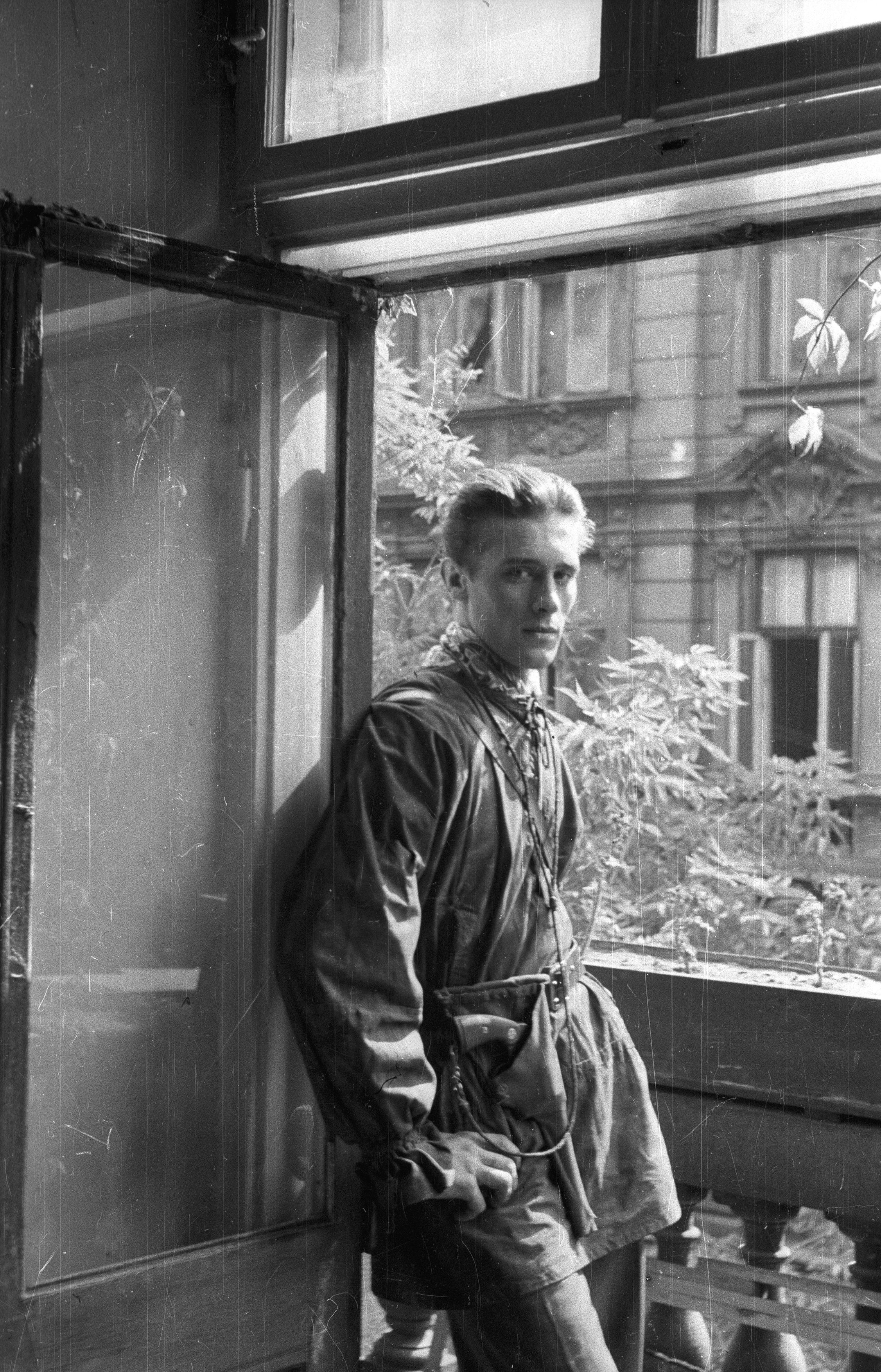 WarsawUprising: por. Wiesław Chrzanowski "Wiesław" from "Anna" Company of "Gustaw" Battalion in a townhouse at 16 Wilcza Street.